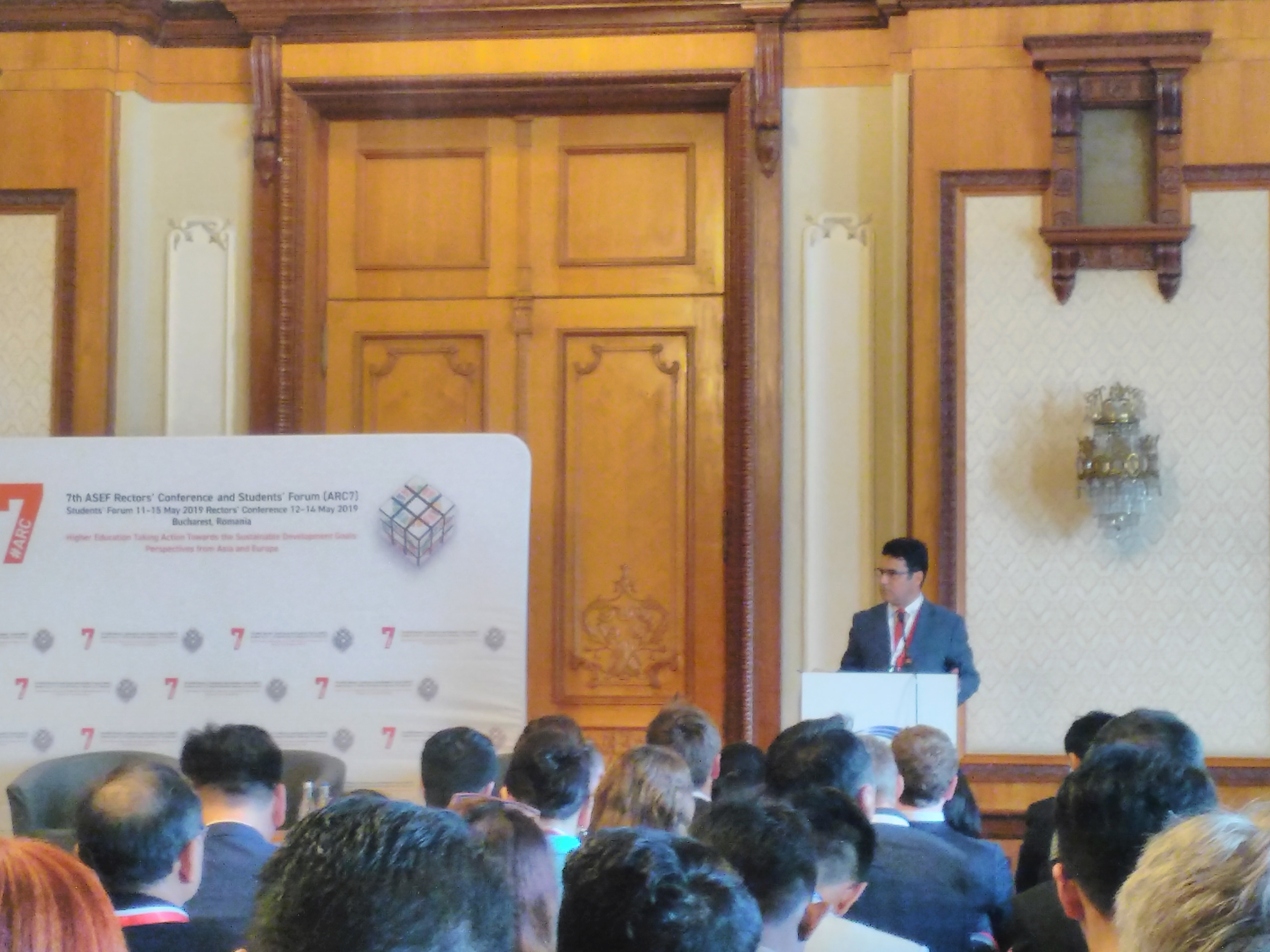 Remus Pricopie at the 7th ASEF Conference in the Parliament of Romania.